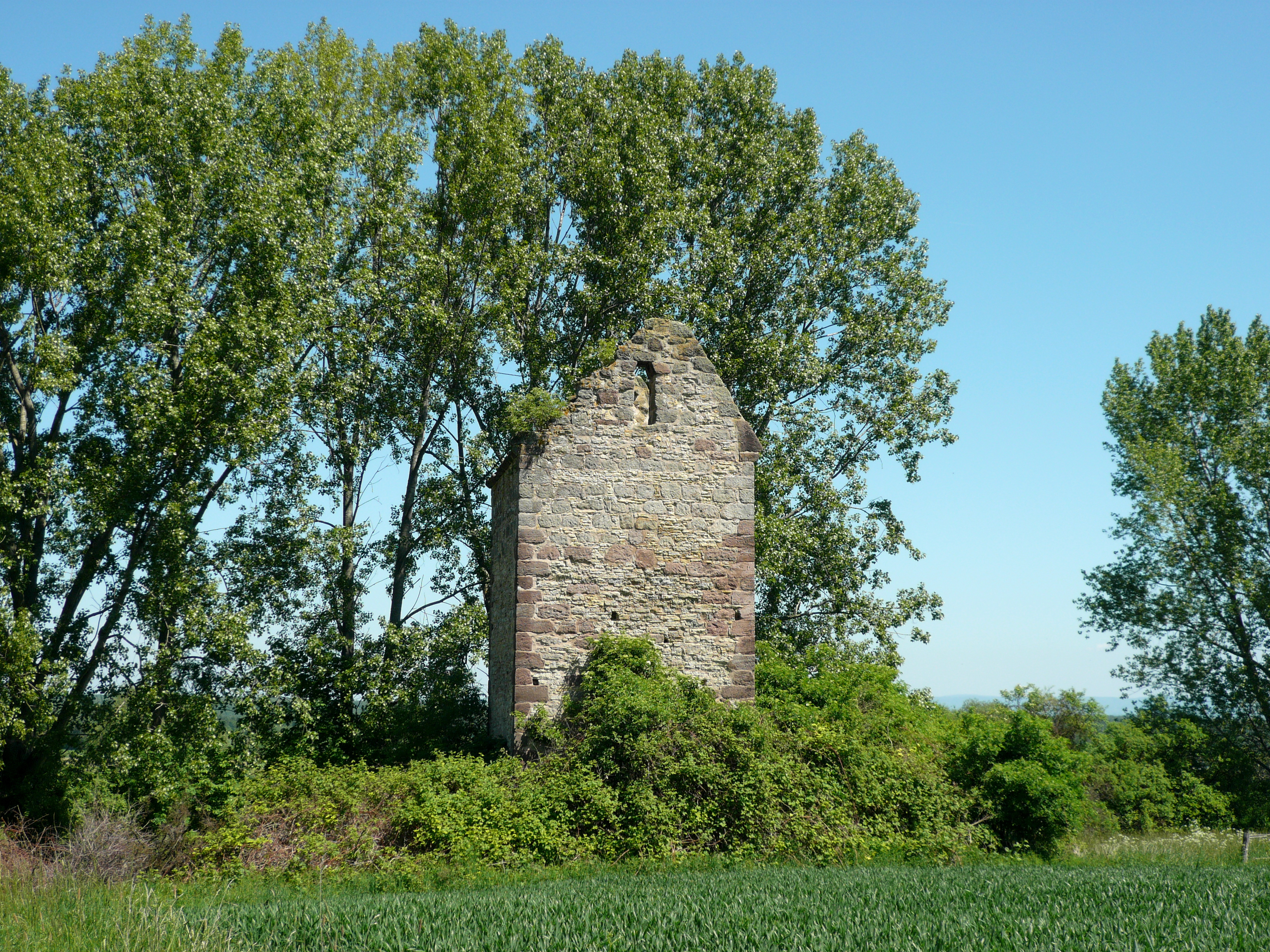 Maeuseturm, remains of a medieval church, near the village of Holzerode / Goettingen